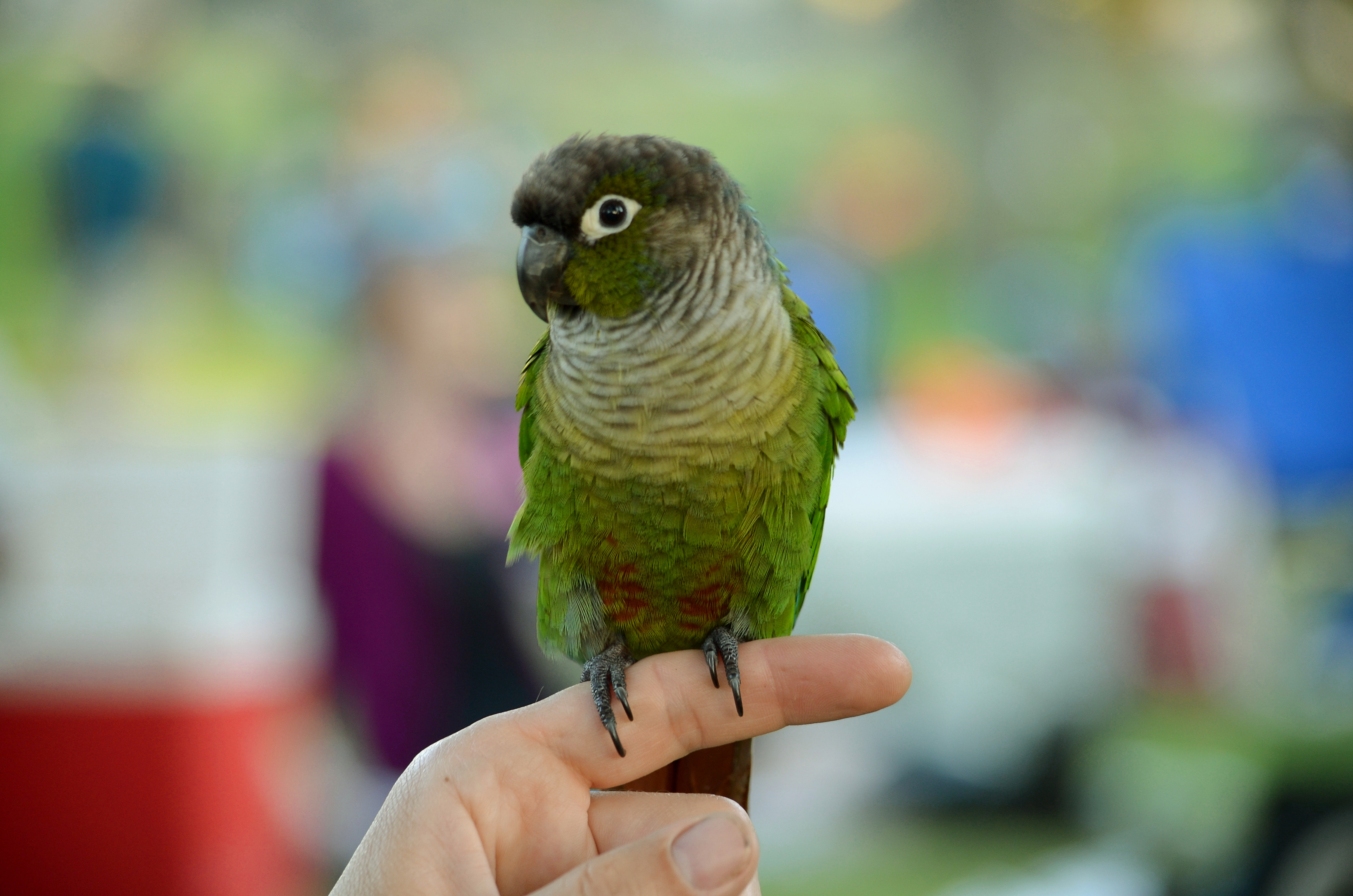 A Green-cheeked Parakeet perching on the index finger of a left hand.